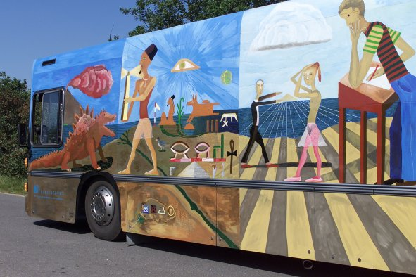 Mobile Library of Varde, Denmark. Decoration by Seppo Mattinen in 2002